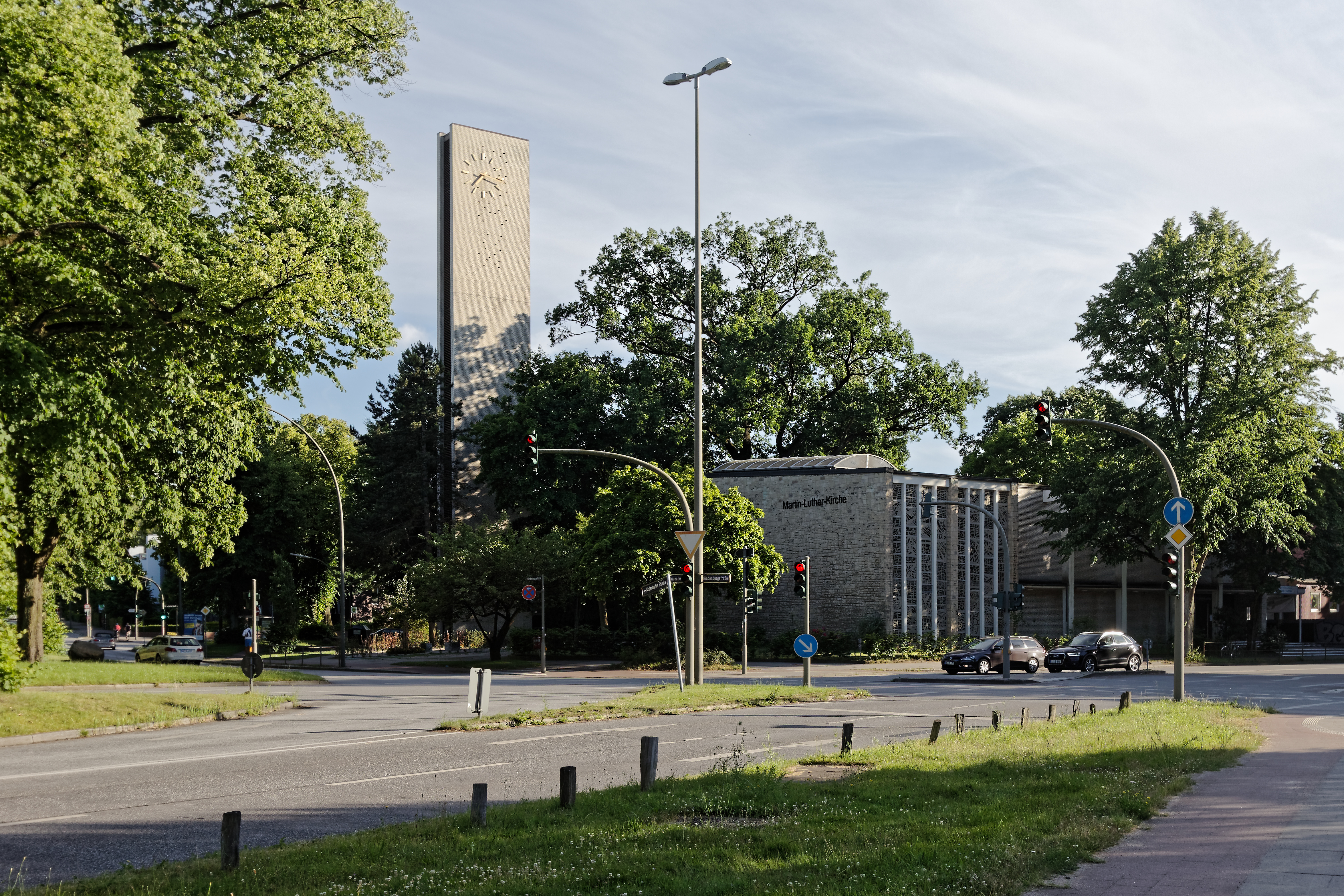 Martin-Luther-Church in Hamburg-Alsterdorf, view from north-eastThis is a photograph of an architectural monument.